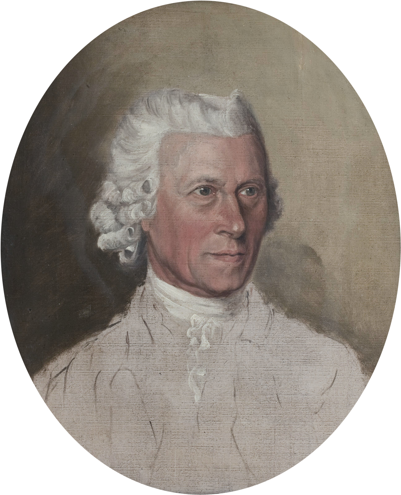 Peter Paillou Jr oil on canvas 37 x 31 cm